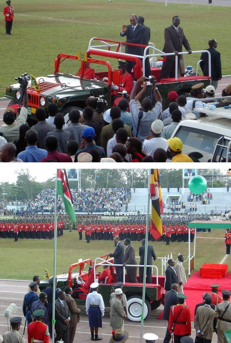 12 January 2004: President Amani Abeid Karume of Zanzibar (waving) enters Amani Stadium in Zanzibar Town in his ceremonial Hummer at the 40th anniversary celebrations of Zanzibar's 1964 Revolution.